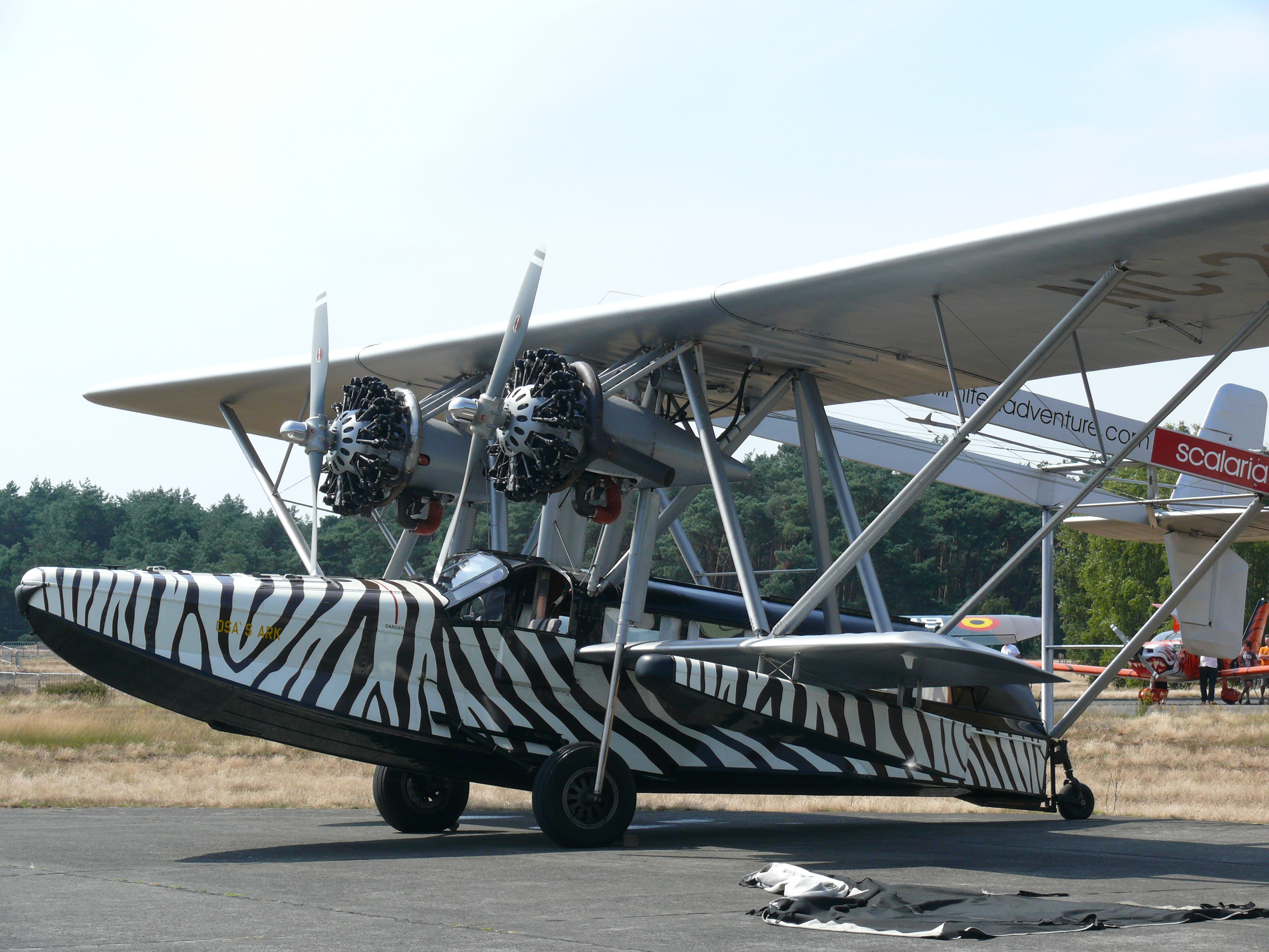 Sikorsky S-38B (Replica) N28V (cn B414-20) painted as Osa's Ark. Filmmakers Martin and Osa Johnson explored Africa extensively, making safari movies and books, in the zebra-striped S-38 Osa's Ark, with companion giraffe-patterned S-39 Spirit of Africa